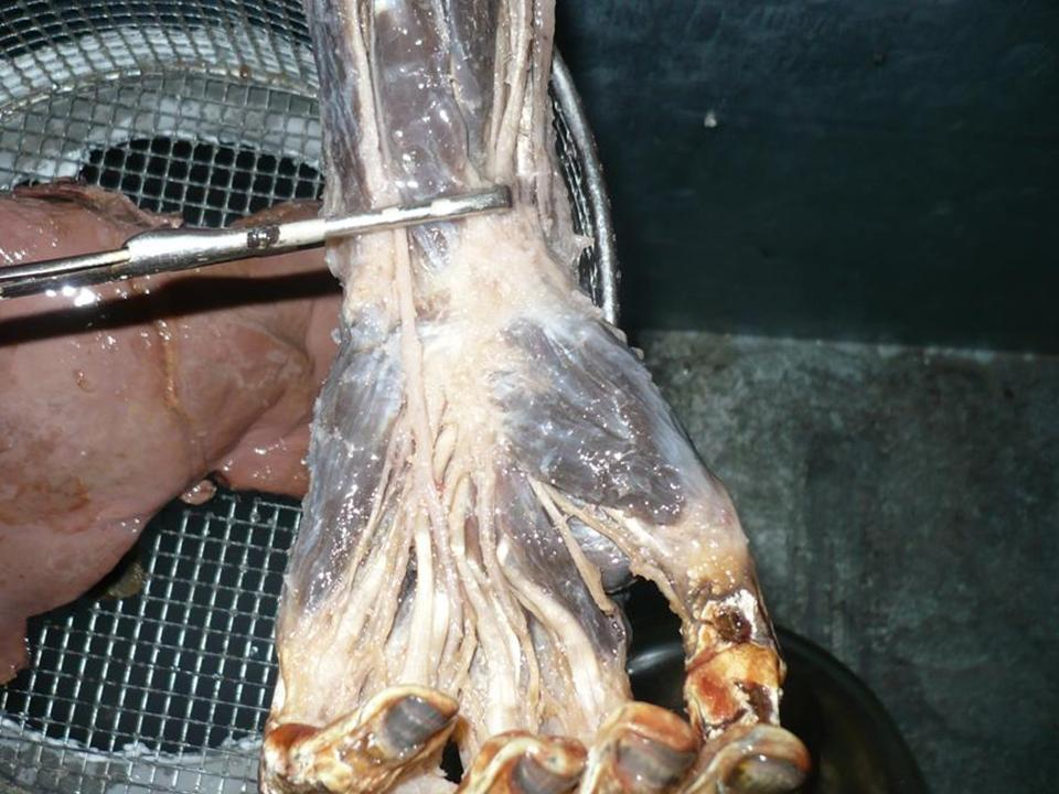 Hand plastination